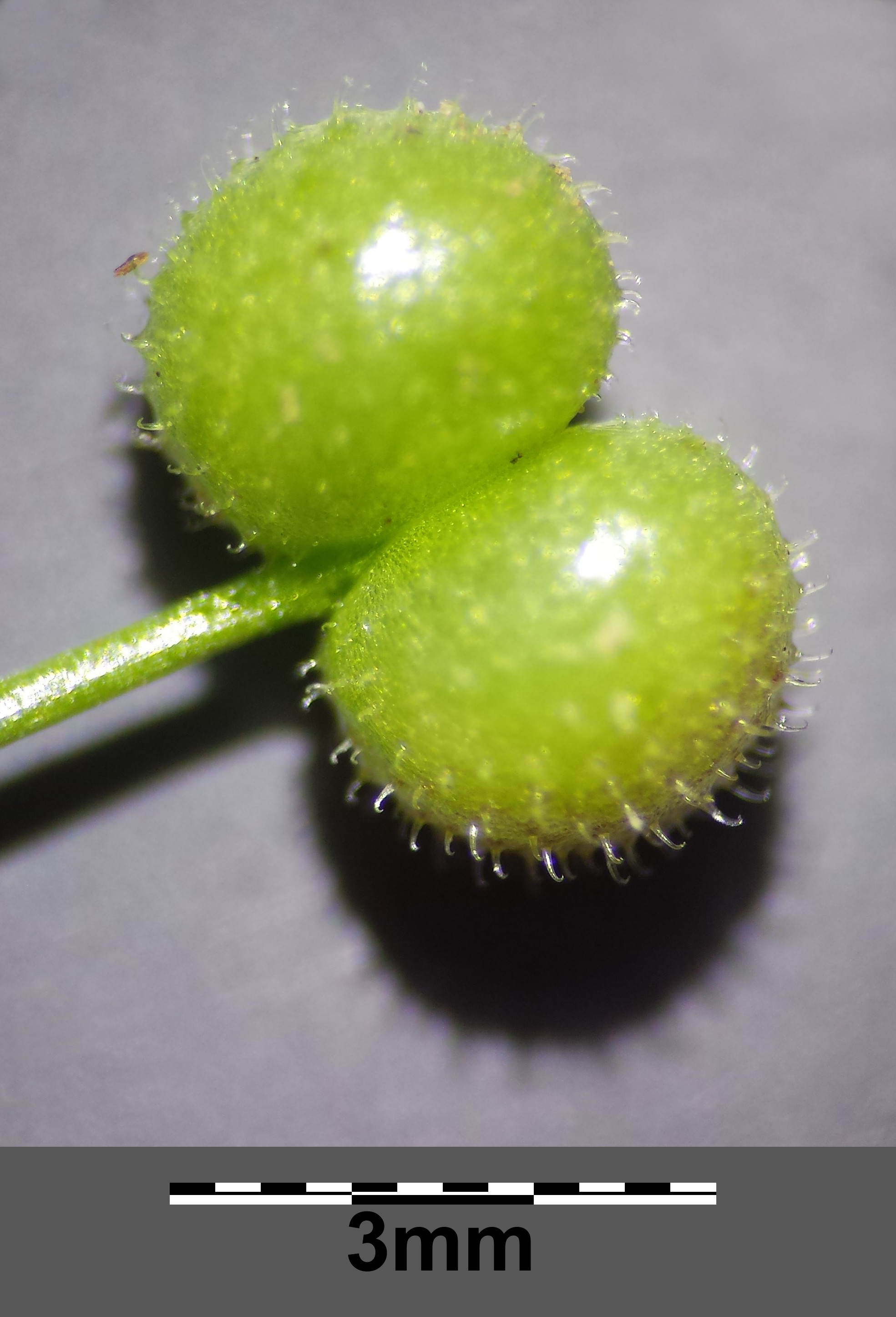 Fruit with hooked setae Taxonym: Galium spurium var. echinospermum ss Fischer et al. EfÖLS 2008 ISBN 978-3-85474-187-9 Location: pond near Michelstetten, district Mistelbach, Lower Austria - ca. 250 m a.s.l. Habitat: shore of a pond